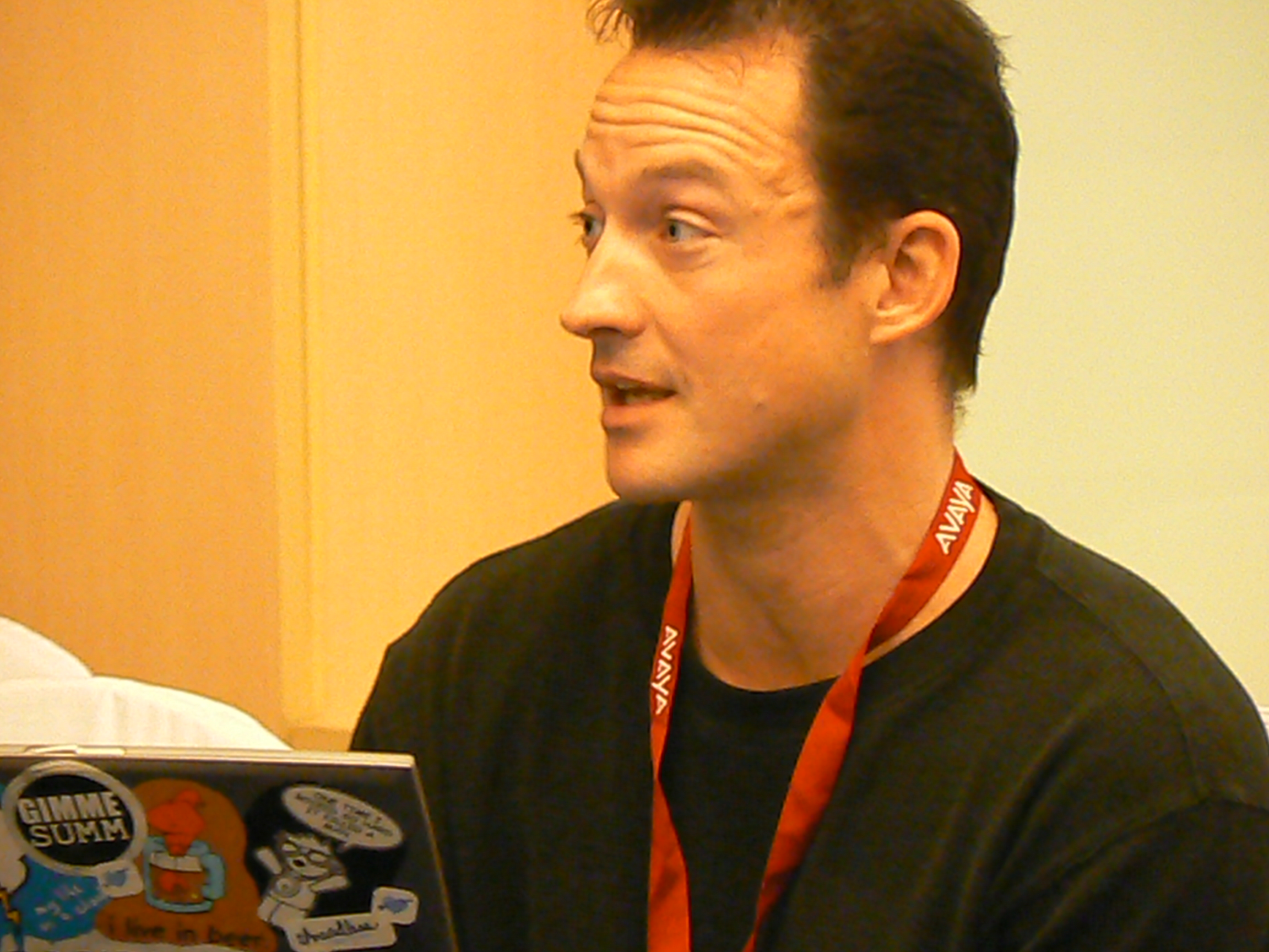 Chris Avellone at e-Services 2009, SMX, Manila